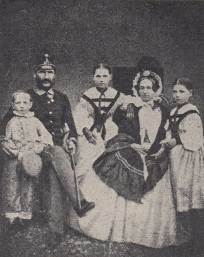 Franz Hruschka and his wife Antonia Hruschka nee Albrecht. Photographs of Franz Hruschka (1819-1888) taken prior to 1888